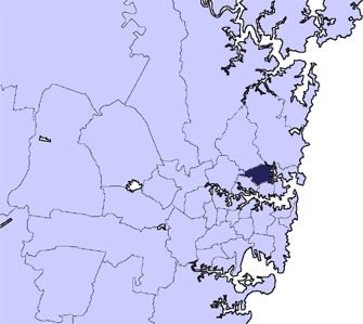 Locator Map Willoughby lga sydney.png Based on Image:Ku-ring-gai sydney.png by User:Randwicked.